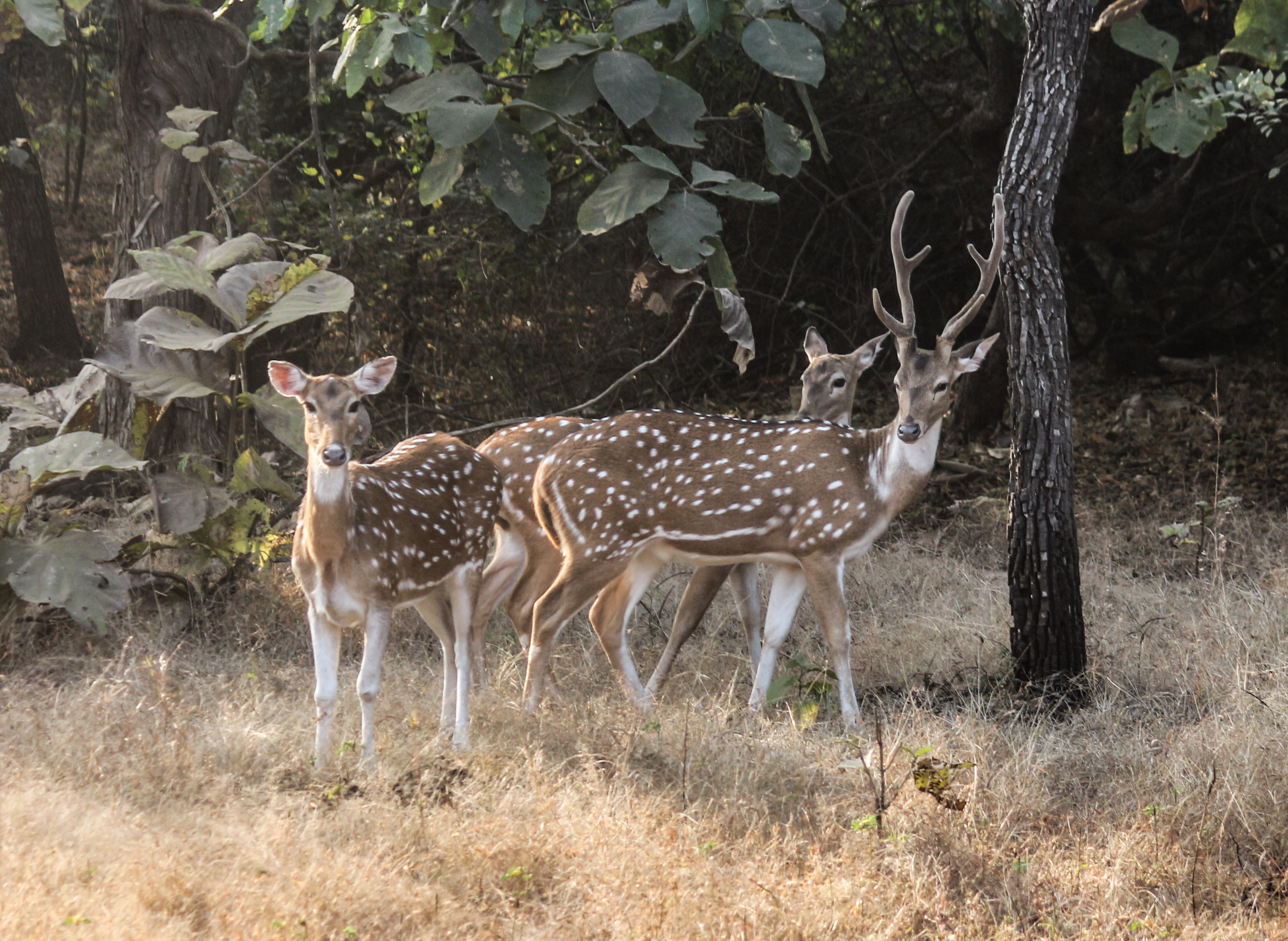 Axis deer (Axis axis) in Gir Forest National Park, India